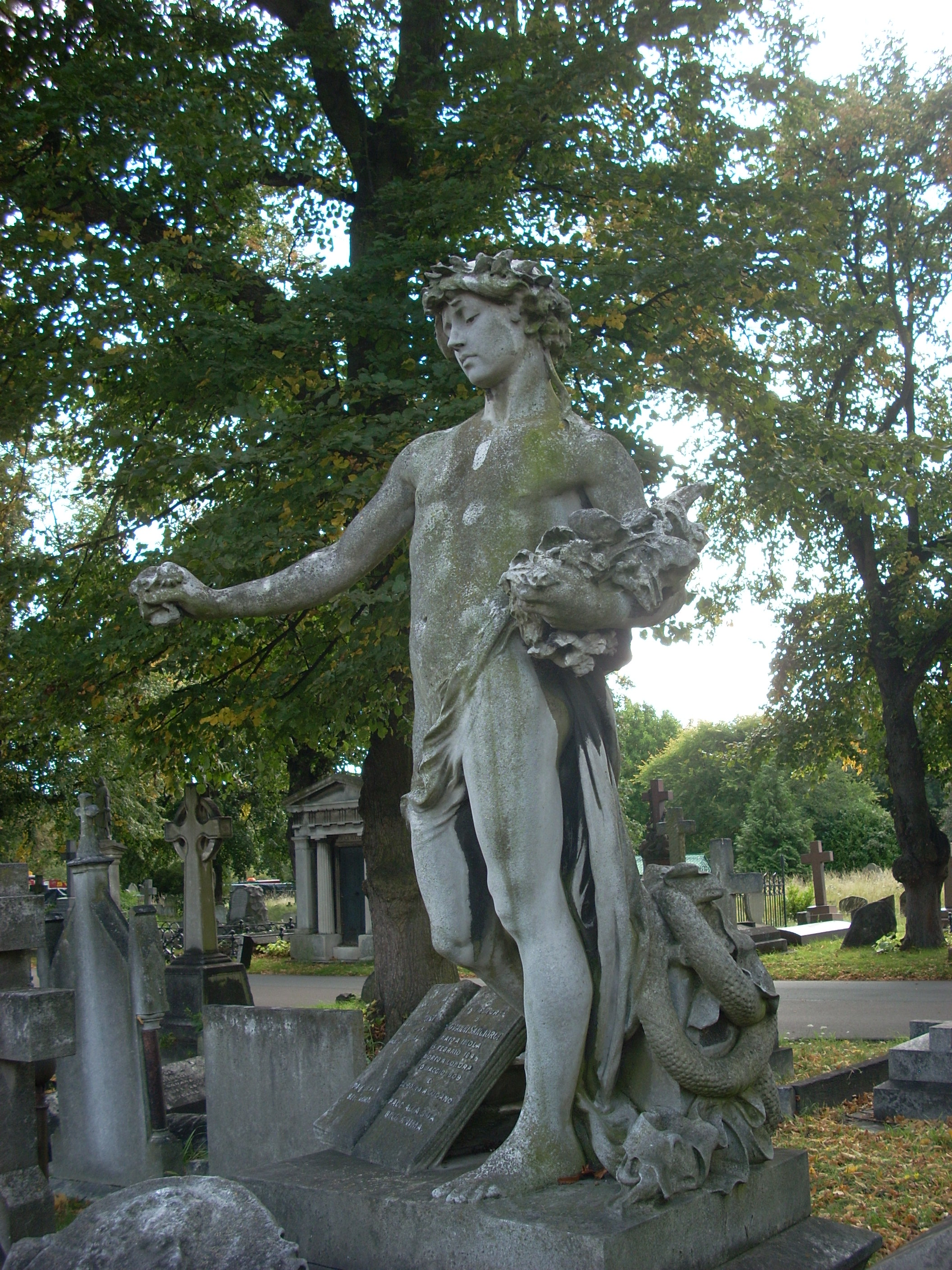 Brompton Cemetery, Chelsea, London, England.